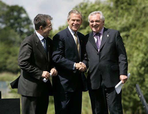 President of the European Commission, Romano Prodi, left, United States President George W. Bush, and Taoiseach Bertie Ahern, right, following their press conference at the U.S.-E.U. Summit in Dromoland Castle in Shannon, Ireland on June 26, 2004.